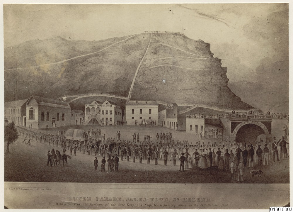 The remains of the emperor Napoleon passing through Jamestown, St Helena, October 13th1840. Chalcography.